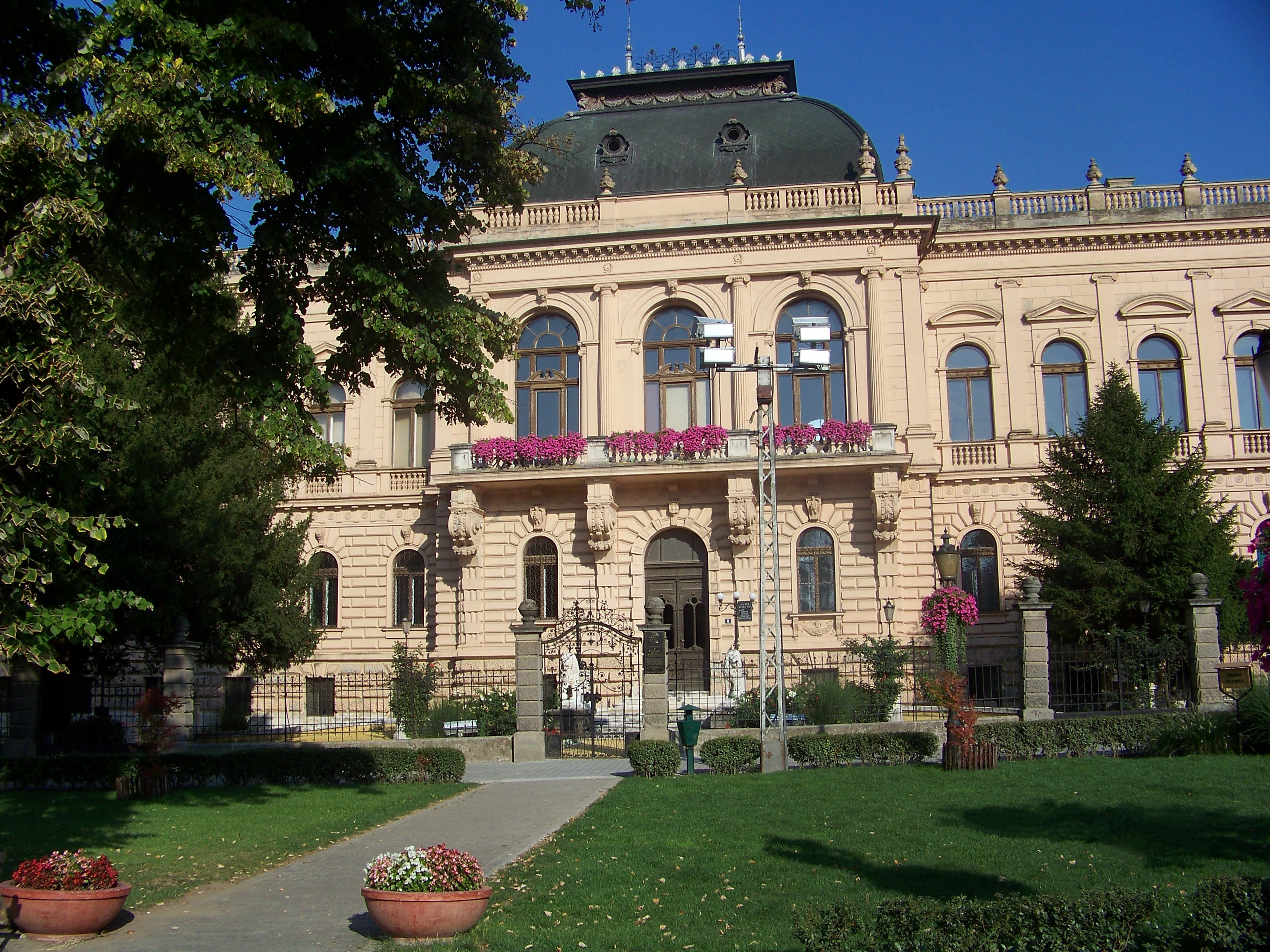 Sremski Karlovci, Patriarchate building